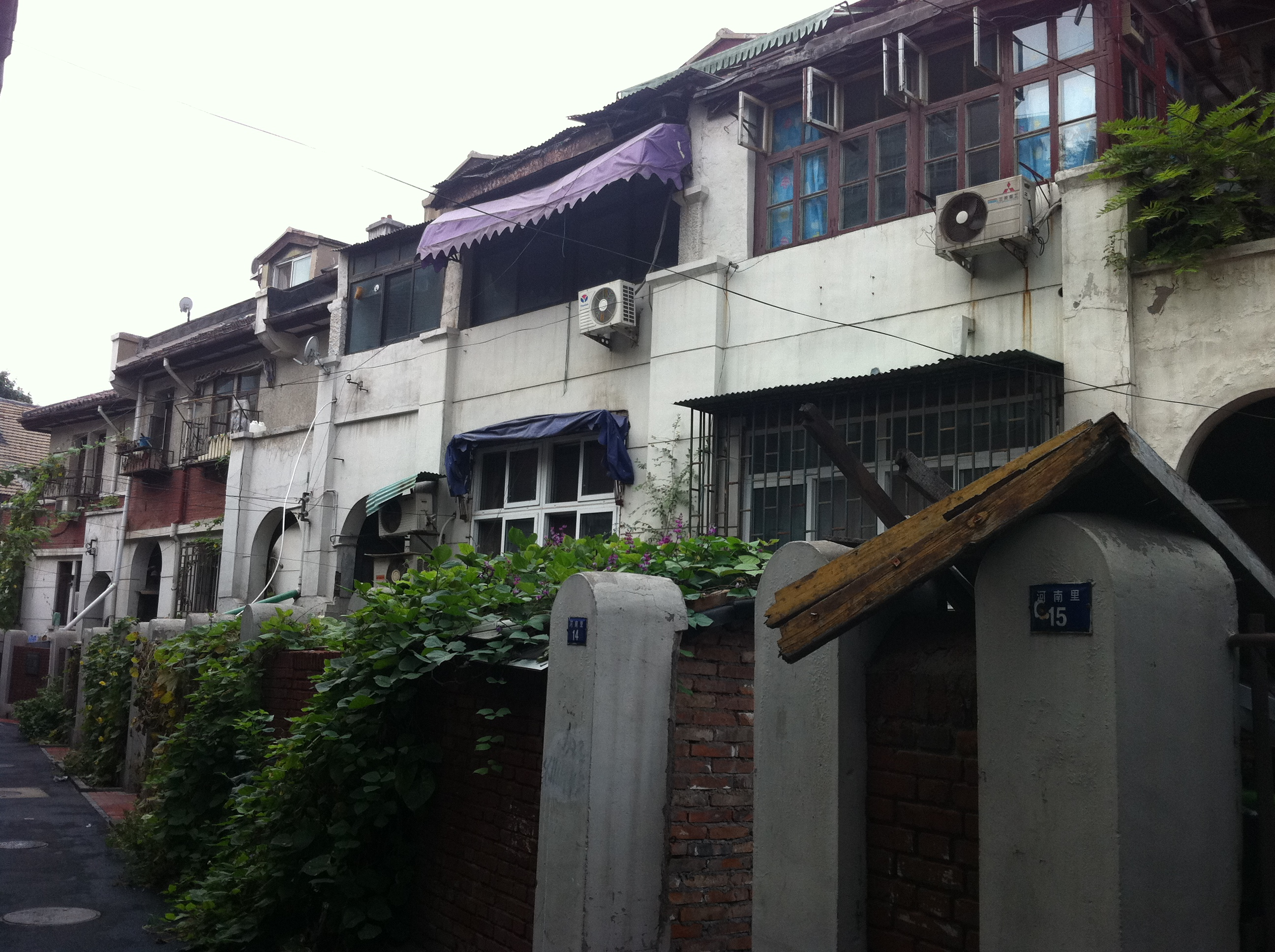 Henan Lu Henan Quarter No. 10, 11, 12, 13, 14, and 15